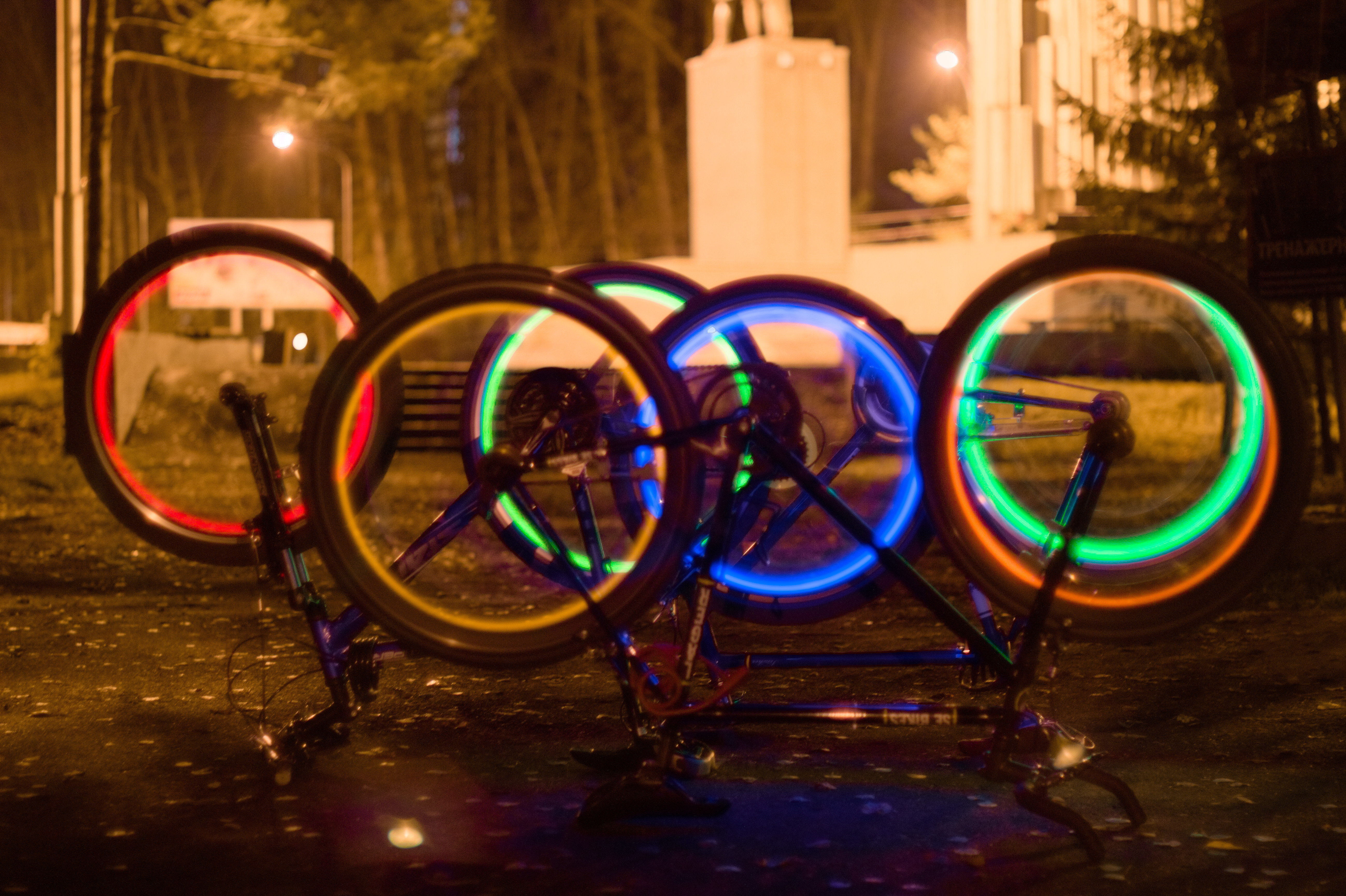 A long-exposure shot of the Arara battery-free bike lights.